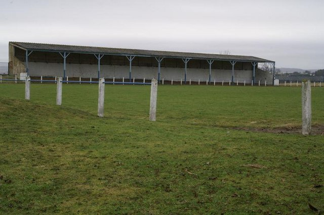 Blairgowrie JFC The home ground of Blairgowrie Juniors Football Club, Davie Park in Rattray.